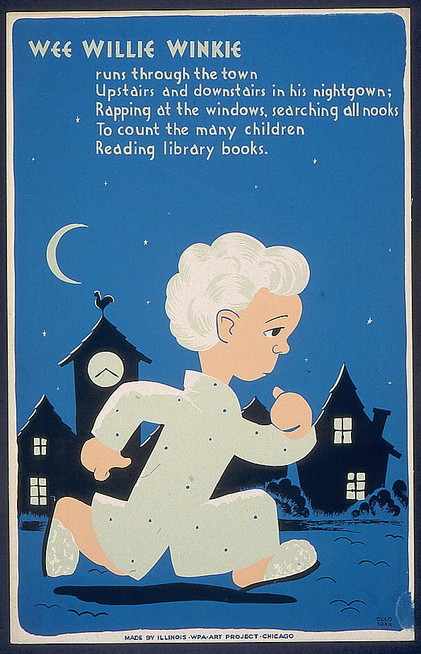 Children's library promotion poster. "Wee Willie Winkie runs through the town / Upstairs and downstairs in his nightgown / Rapping at the windows, searching all nooks / To count the many children / Reading library books."